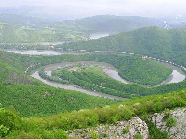 Zapadna (West) Morava river in Serbia